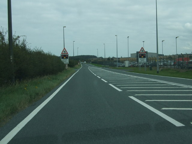 A18 road approach at Humberside Airport